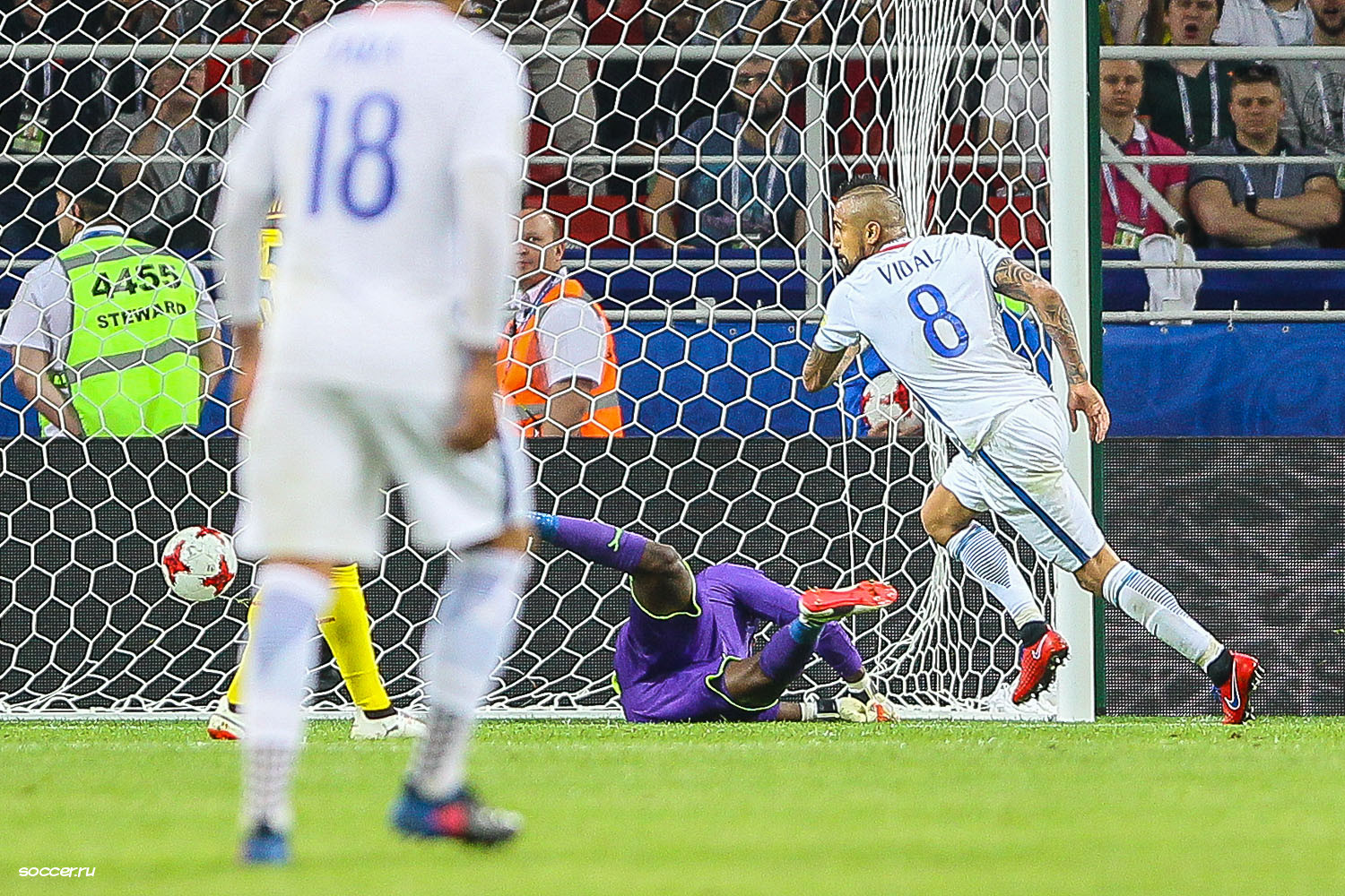 Cameroon vs Chile (0-2). FIFA Confederations Cup 2017